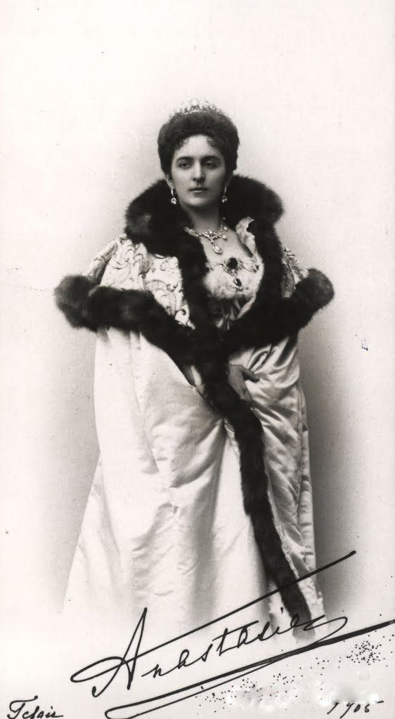 Princess Anastasia of Montenegro, Duchess of Leuchtenberg and Grand Duchess Anastasia Nikolaevna of Russia